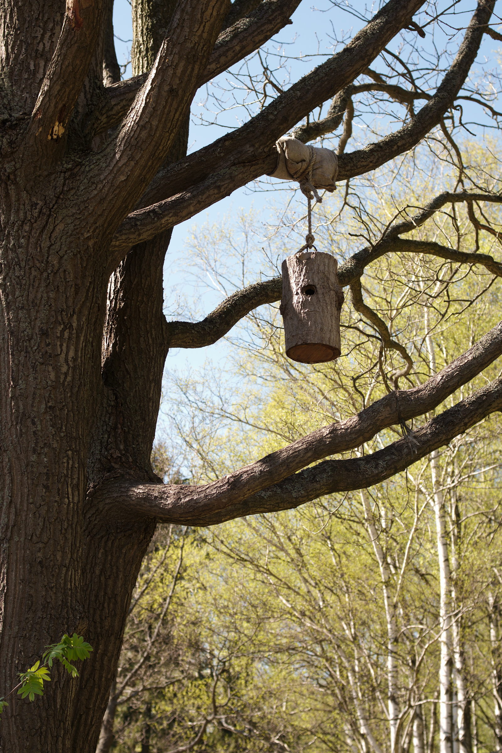 Nesting box in North Shore of Neva Gulf natural reserve territory